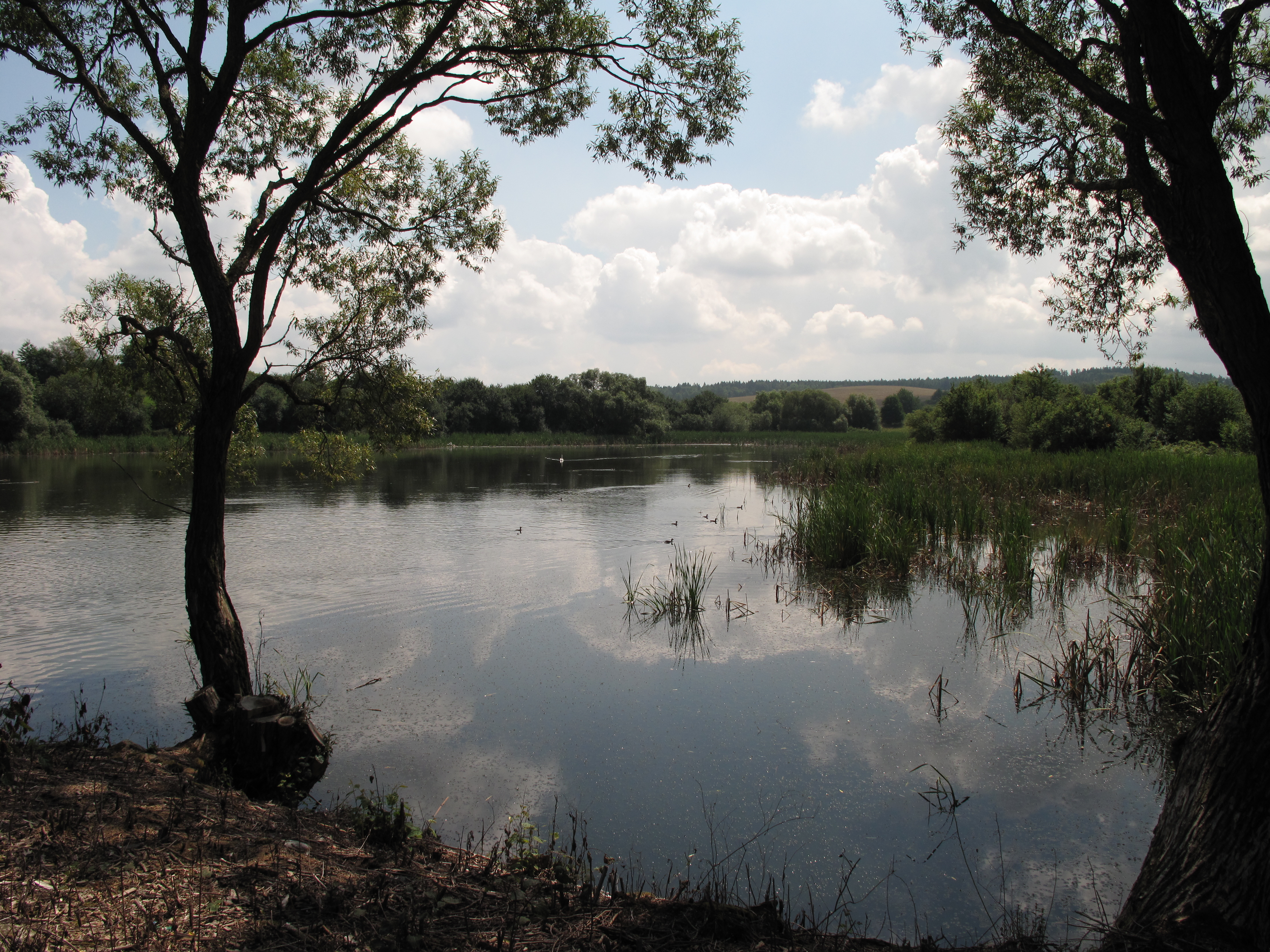 Radvan Pond dike near Čeňovice village, Benešov District, Czech Republic.